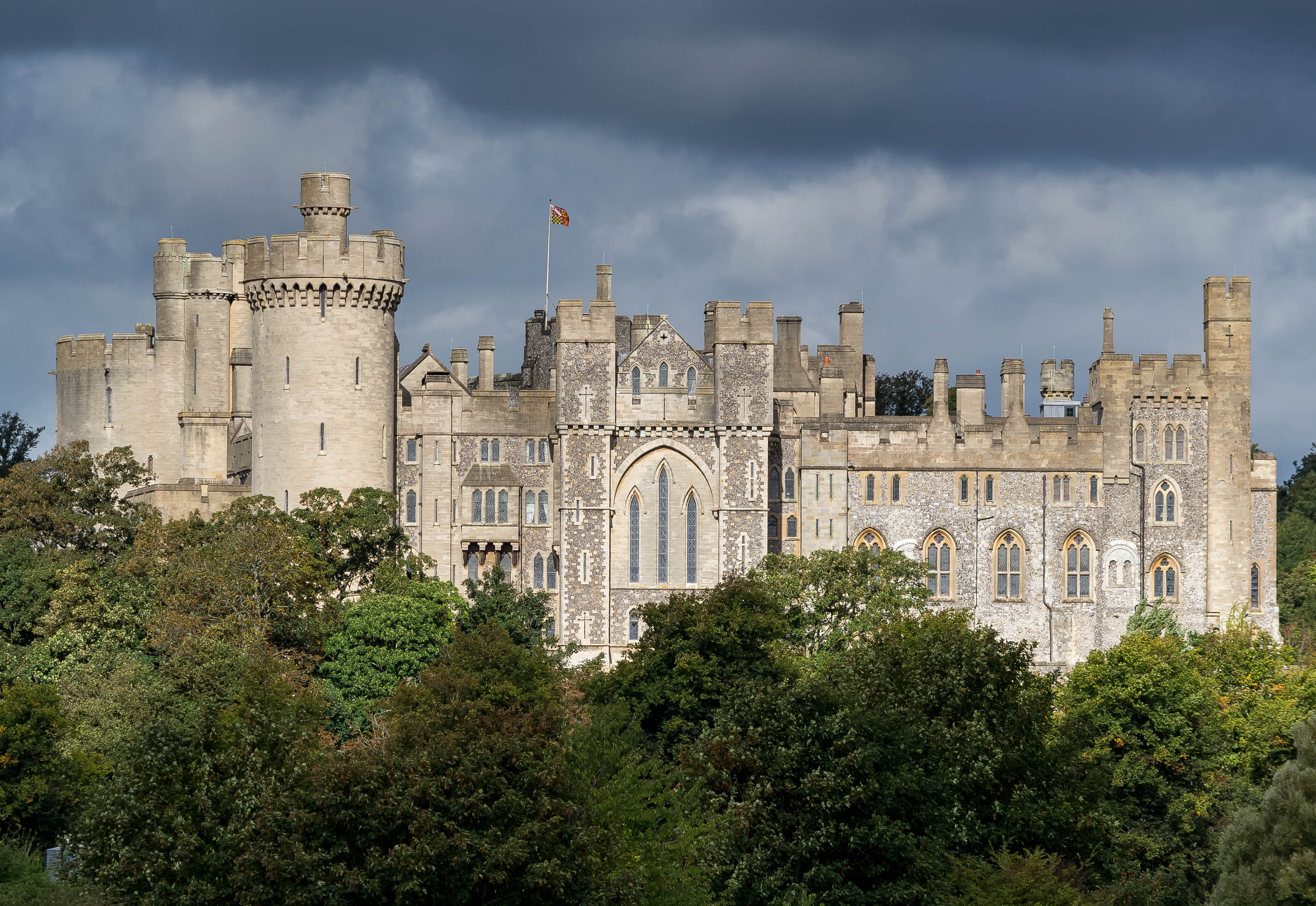 Arundel Castle Wikidata has entry Q716667 with data related to this item.